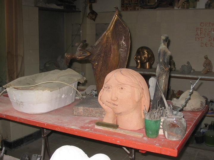 Studio of the sculptress Katharina Szelinski-Singer, Berlin-Lankwitz